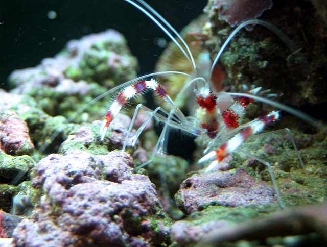 Coral Banded Shrimp (CBS)